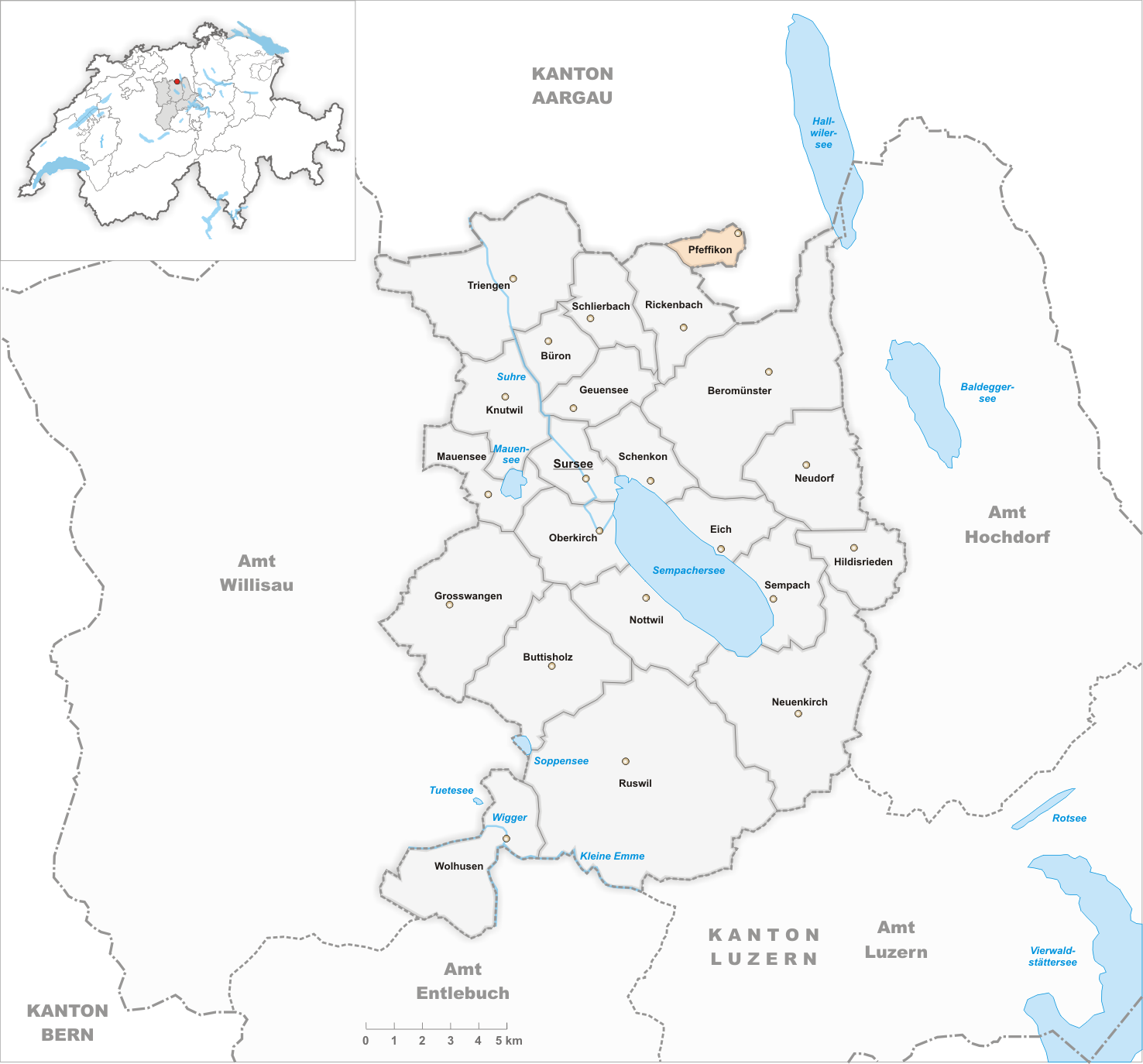 Municipality Pfeffikon